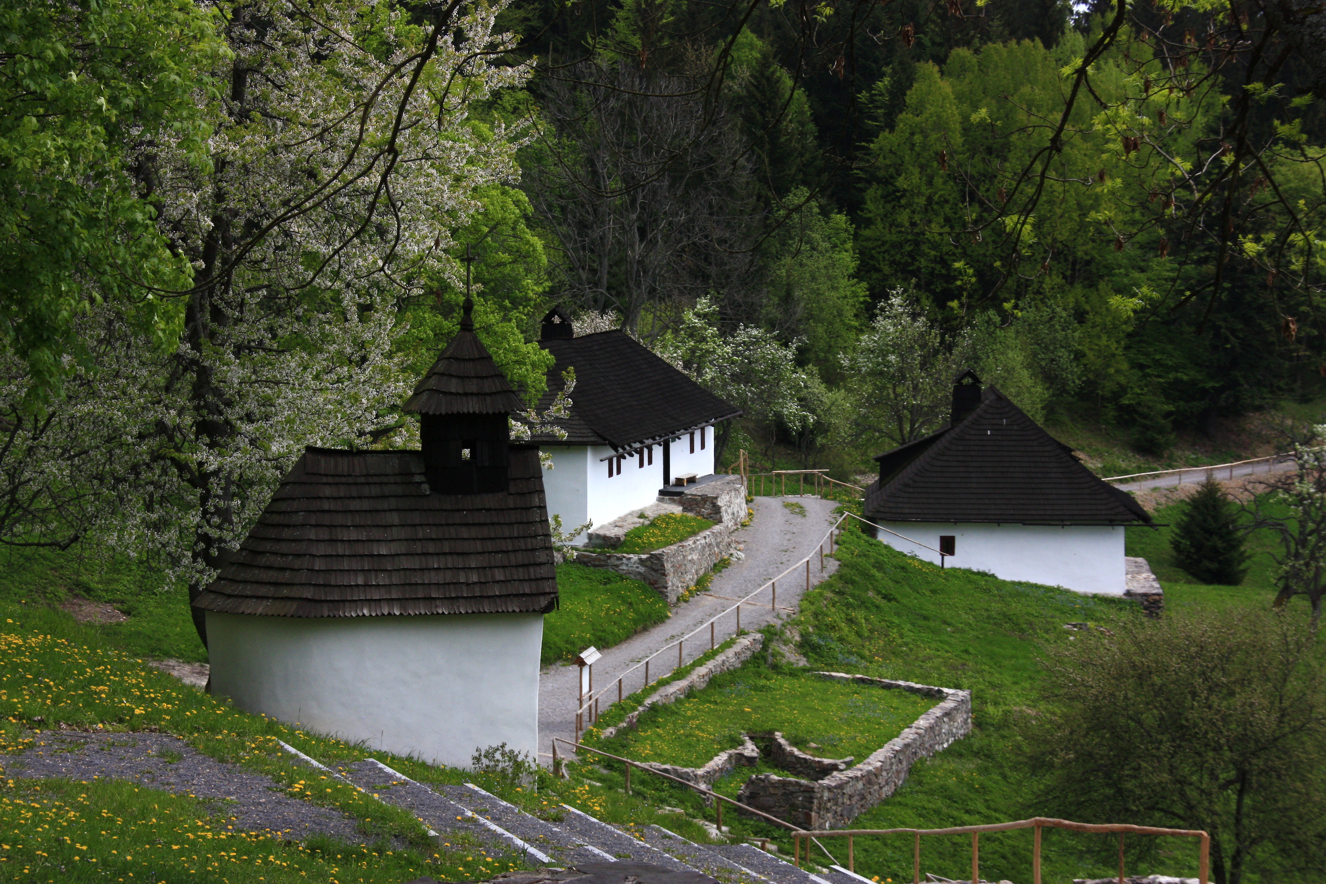 Kalište defunct village, was burned 18 March 1945 the German army unitSlovenčina: Zaniknutá obec Kalište, dedina bola vypálená 18. marca v roku 1945 jednotkou nemeckej armády